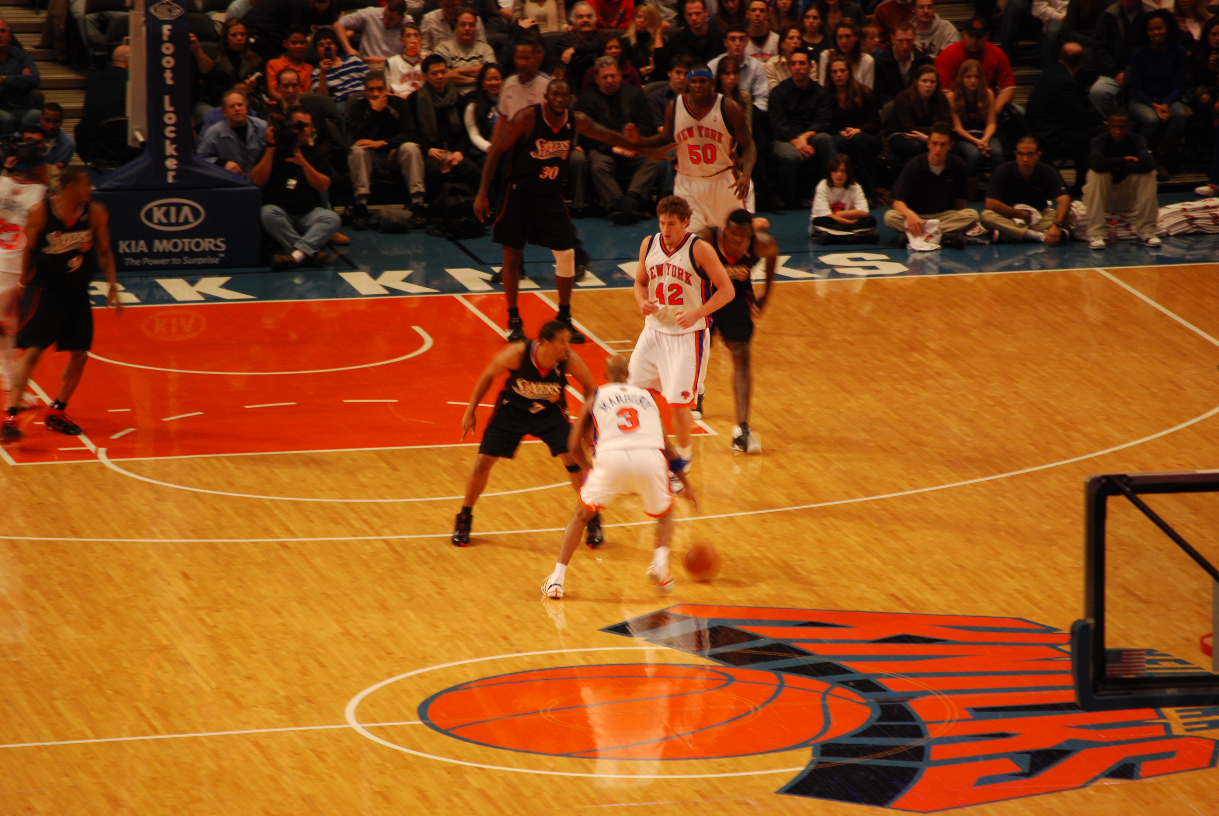 Philadelphia 76ers against New York Knicks, with Andre Miller, David Lee and Stephon Marbury among others.